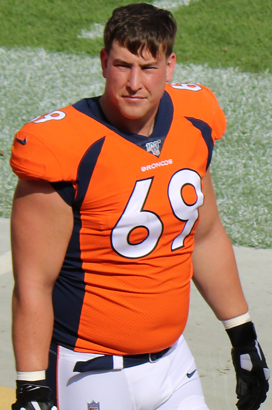 Jake Rodgers, a National Football League player.